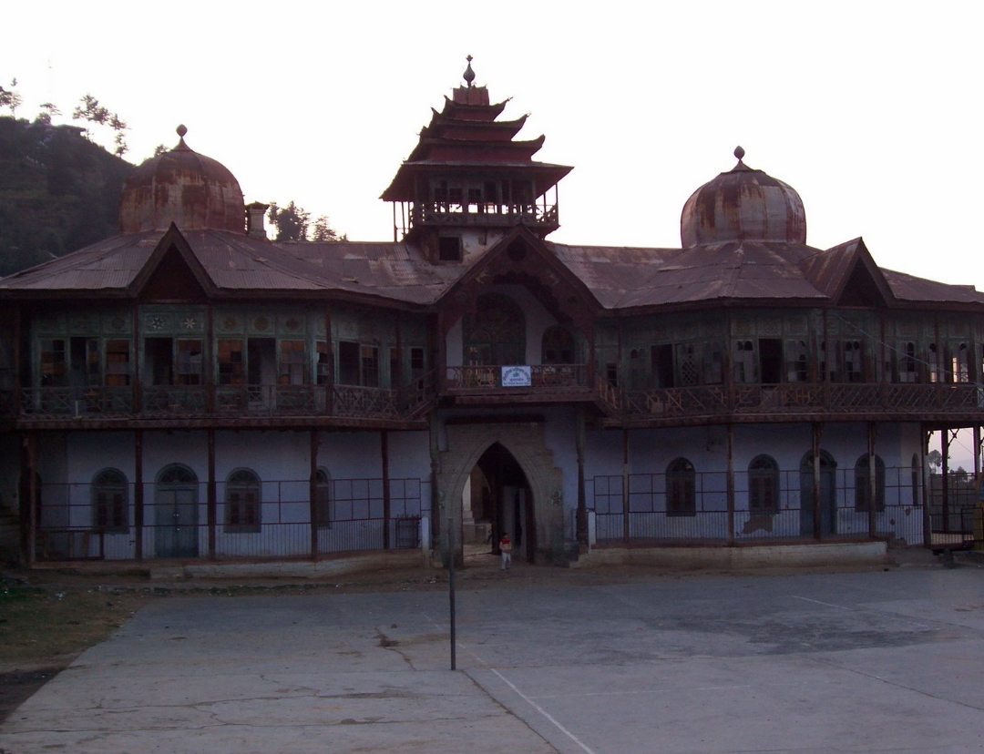 Pride of Kumarsain.